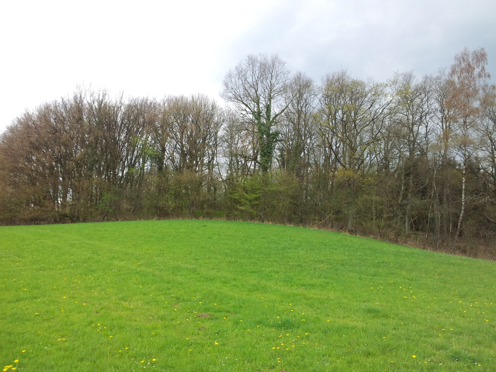 Ruins of "Oestrich Castle" in Iserlohn (Central Wall)